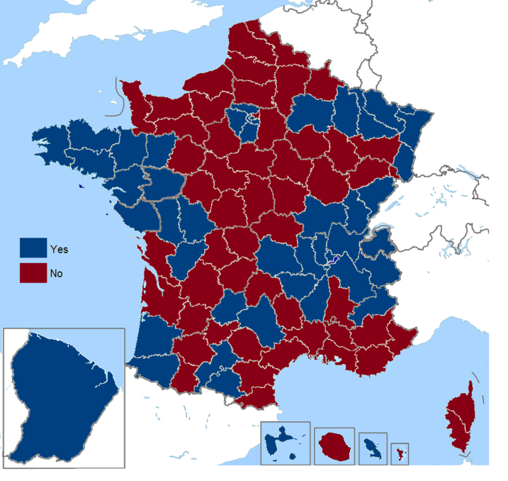 French European Constitution referendum results by departament (including overseas), 2005. Map dosen't show overseas departament of French Polynesia